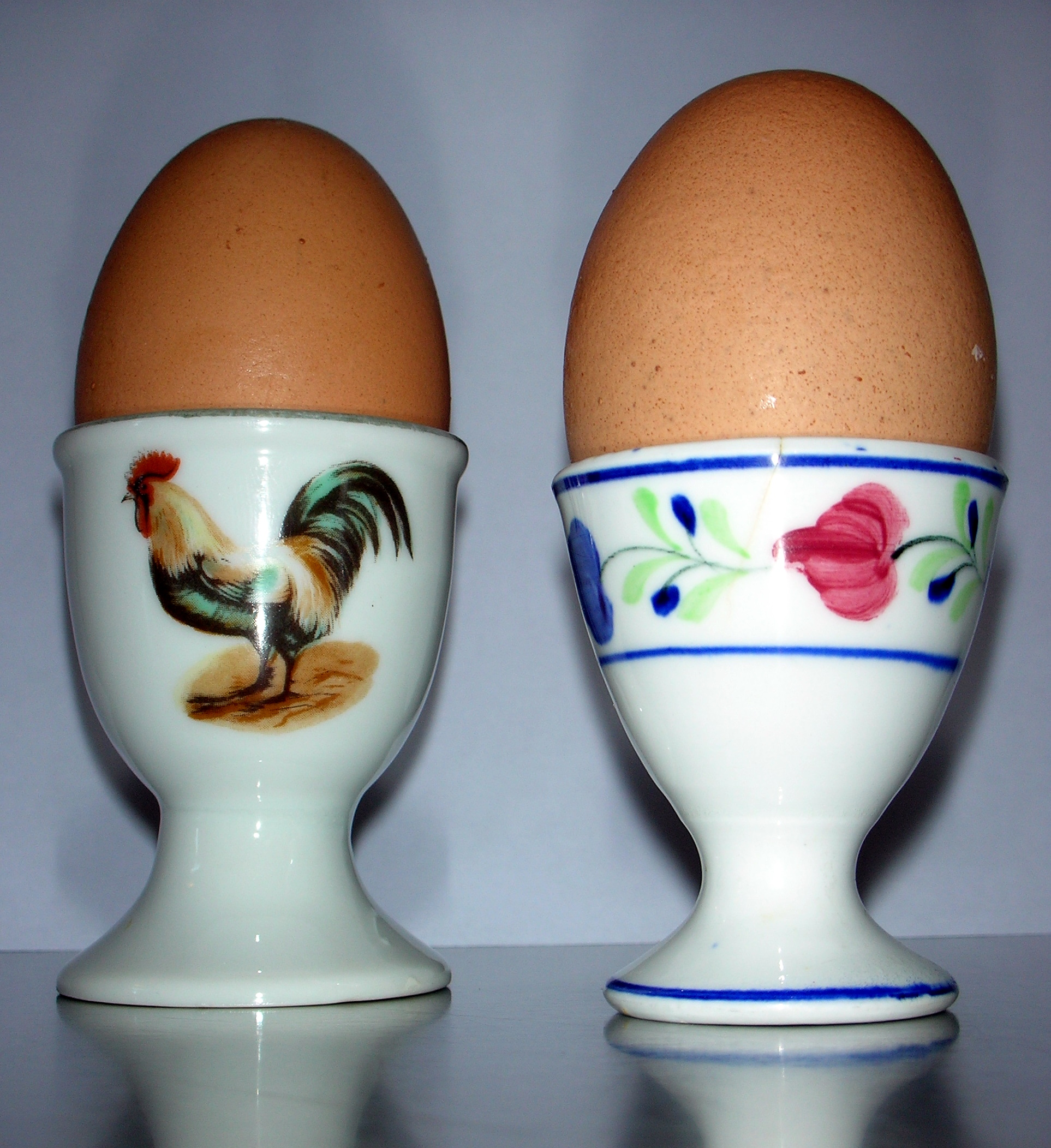 Two eggs.